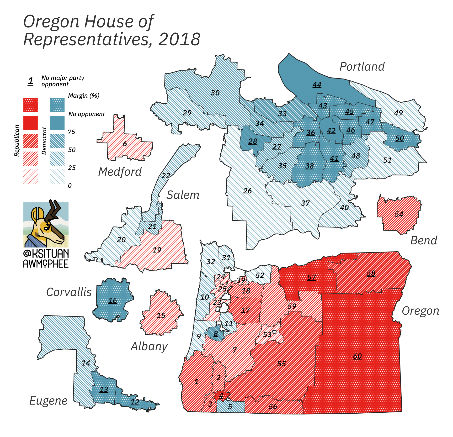 A series of state legislative election maps, created from open data during the summer of 2020. Their common visual style is designed to accomodate all of the unique features of American democracy. They were created using QGIS and Inkscape, two free programs. Please use freely and contact the author with any inquiries about visualizing election data with open-source tools.